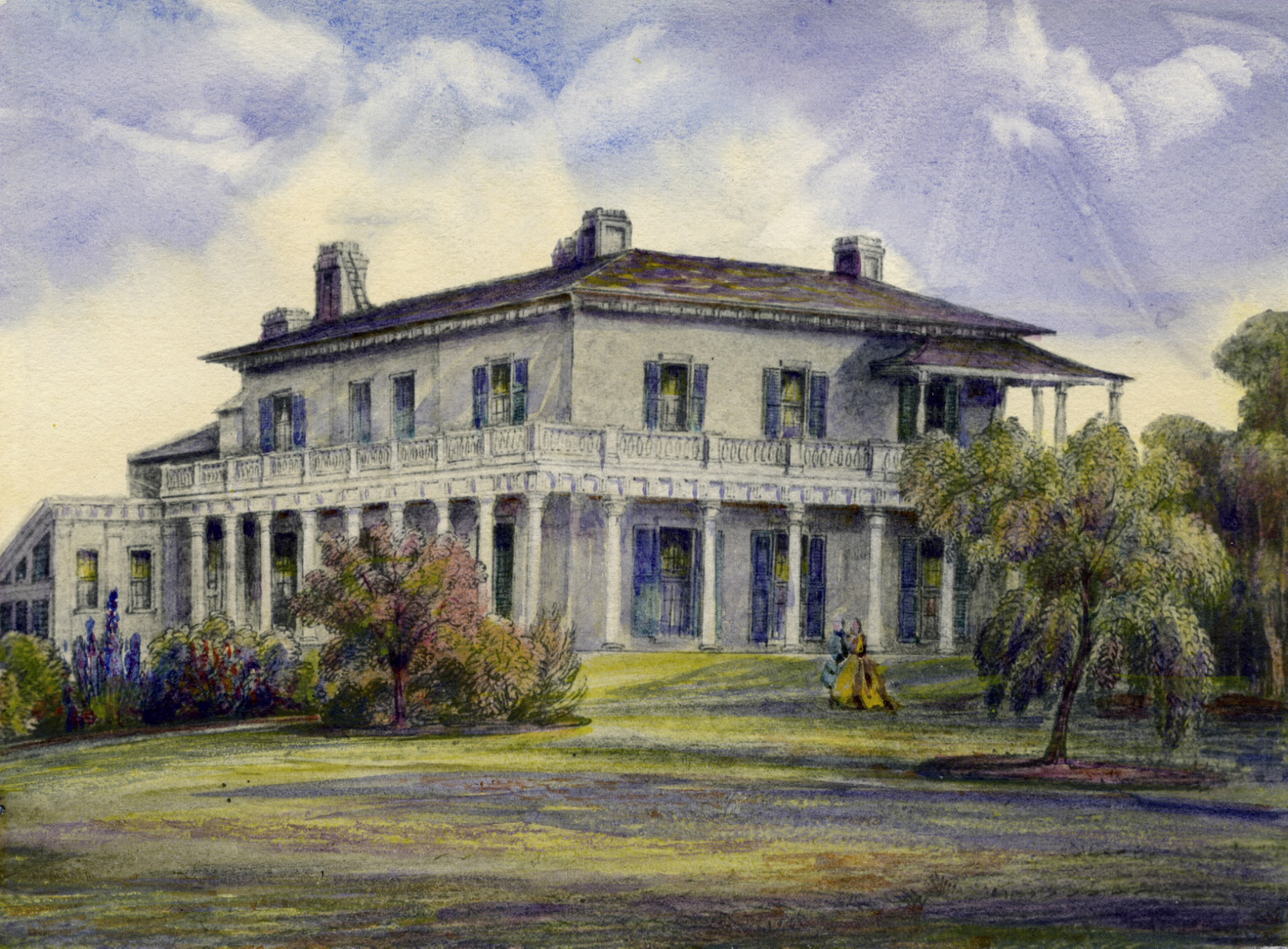 Elmsley Villa, circa 1840, on the corner of Bay and Grosvenor Streets, Toronto. Built by The Hon. John Elmsley (1762-1805). At the time this painting was drawn, the house was lived in by the family of his son-in-law, The Hon. John Simcoe Macaulay (1791-1855), from 1835 to 1845. The house was afterwards occupied by the 8th Earl of Elgin, and frequently served as the residence to Governors of Upper Canada.